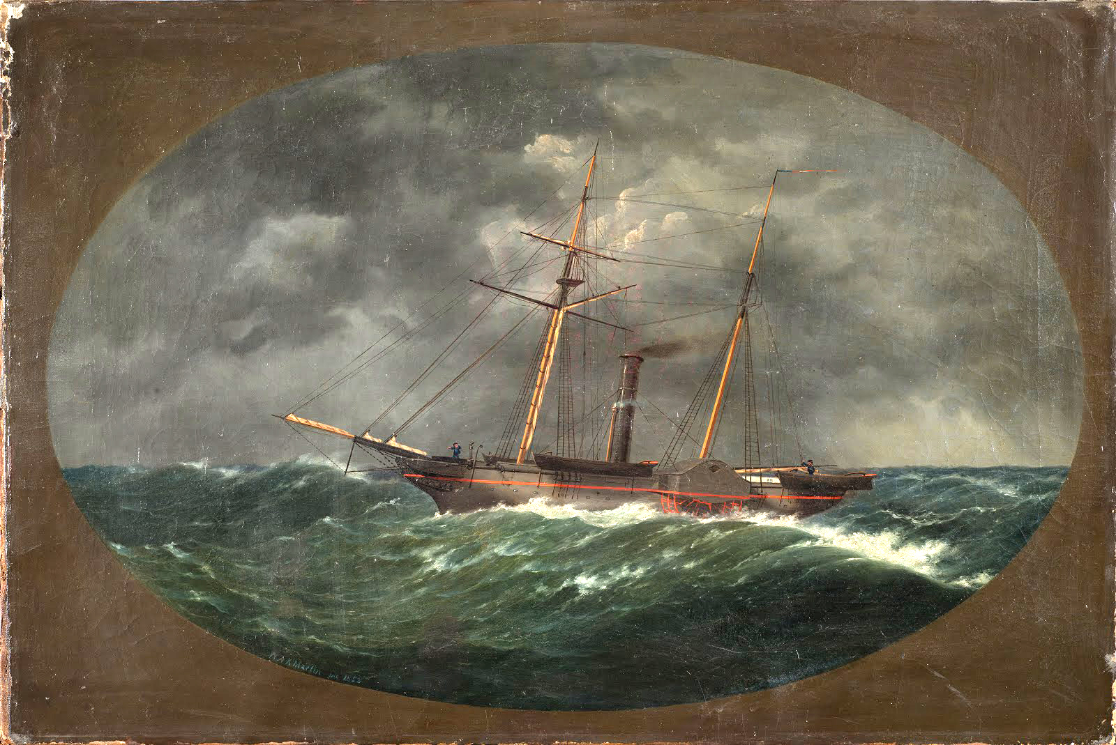 Painting of the US Coastal Survey ship Robert J. Walker by Philadelphia (?) artist W.A.C. Martin in 1852. Painting now in The Mariners' Museum in Newport News, VA. The ship sank after a collision in 1860 10 miles SE of Abescon (Atlantic City) New Jersey, with 20 lives lost. Wreck recently rediscovered and placed on the NRHP. Martins seems to have painted mainly ships, but this seems to be his only work on Commons